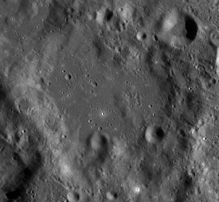 Evans crater, on the far side of the moon. Mosaic of LRO WAC images.